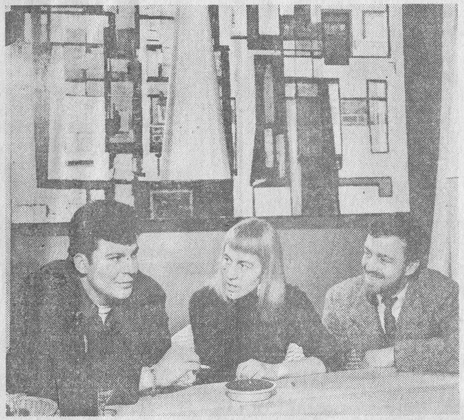 At the opening of the Montmartre Jazz Club in Copenhagen, from left Rudi Olsen, Jette Thyssen and Åge Delbanco